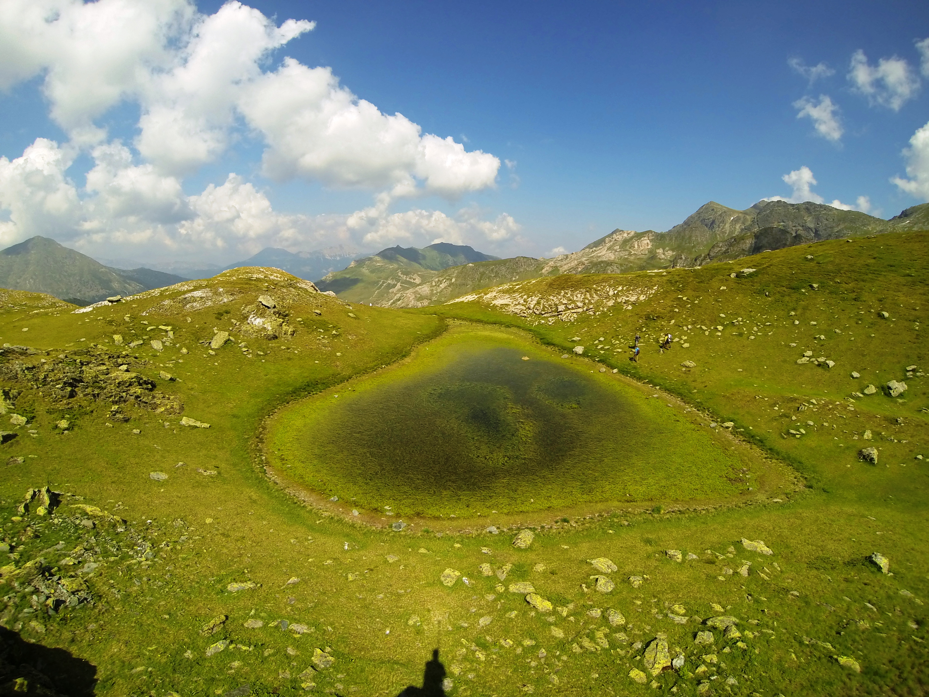 Small Lake in the Mountains of Junik